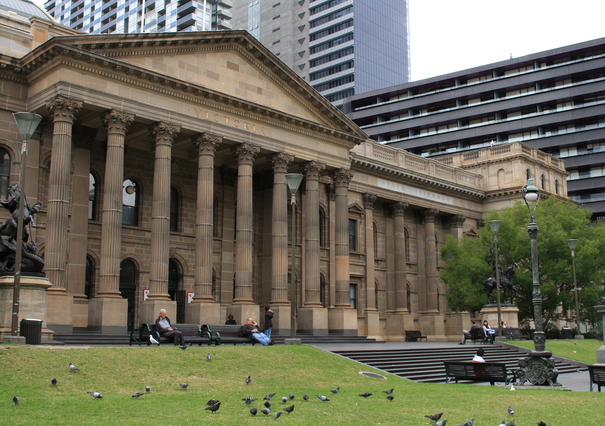 The State library of Victoria in Melbourne, Victoria, Australia.